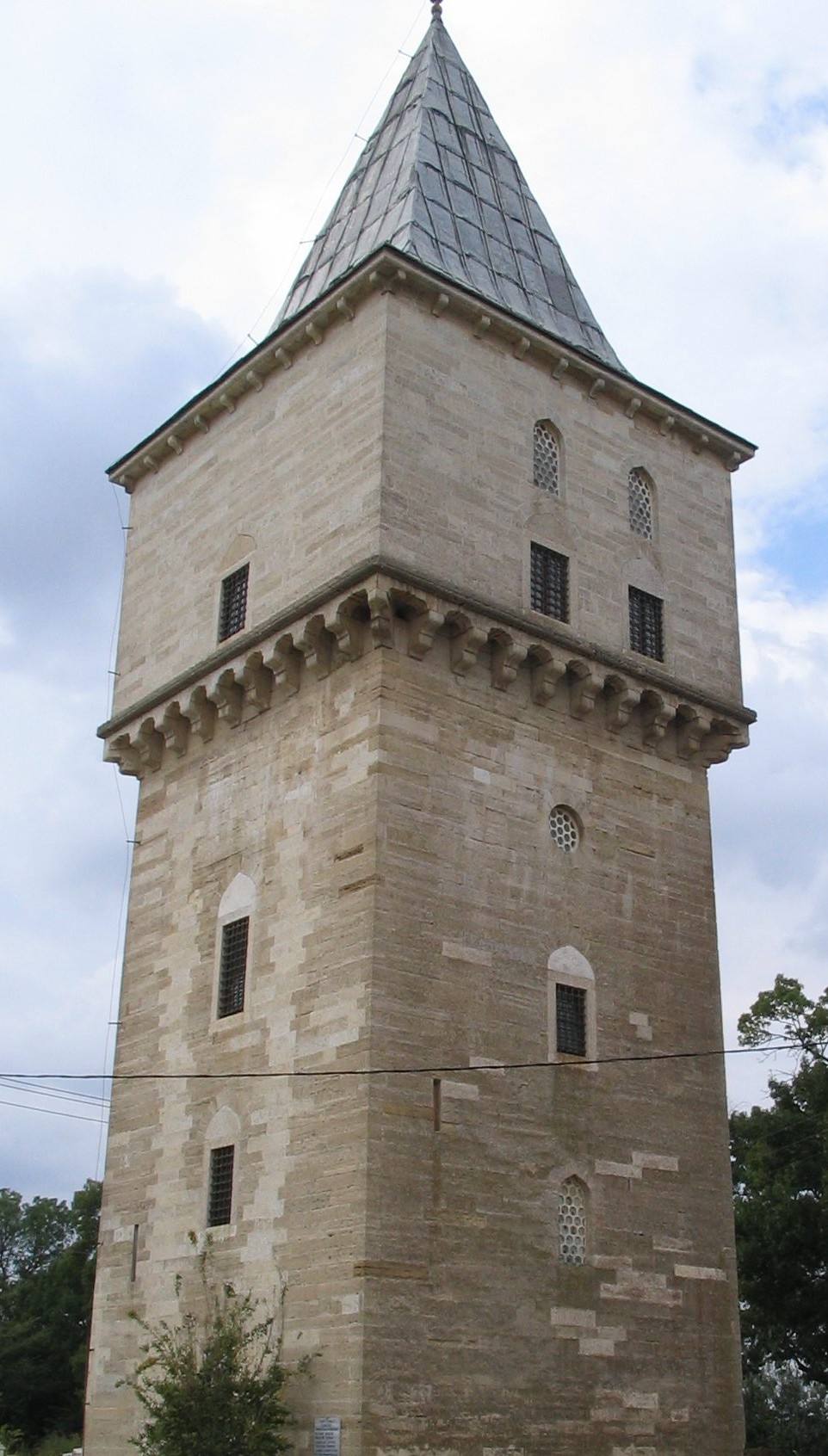 Tower, Edirne